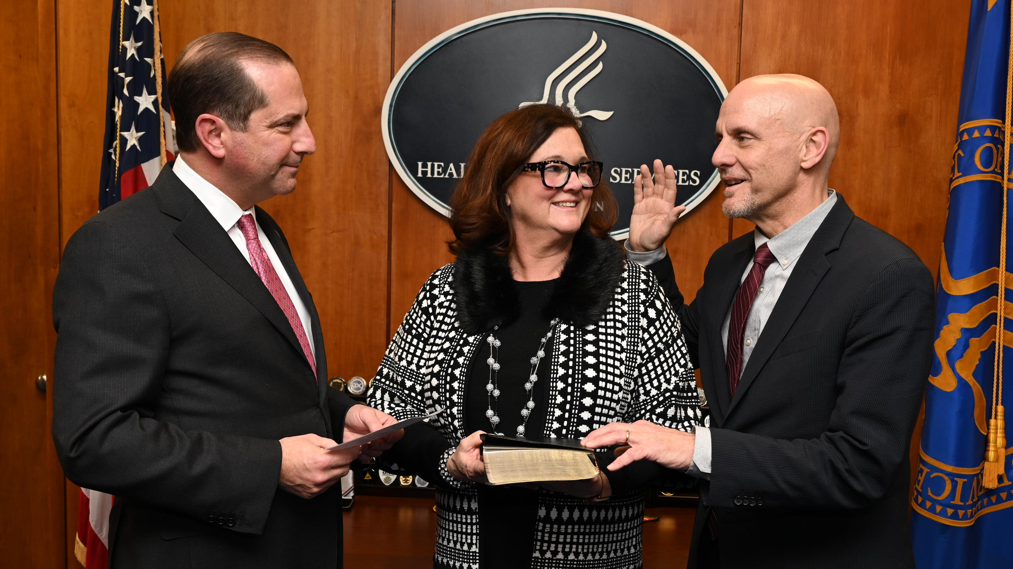 Dr. Stephen Hahn being sworn in, as Commissioner of Food and Drugs, on December 17, 2019, by Secretary of Health and Human Services Alex Azar.